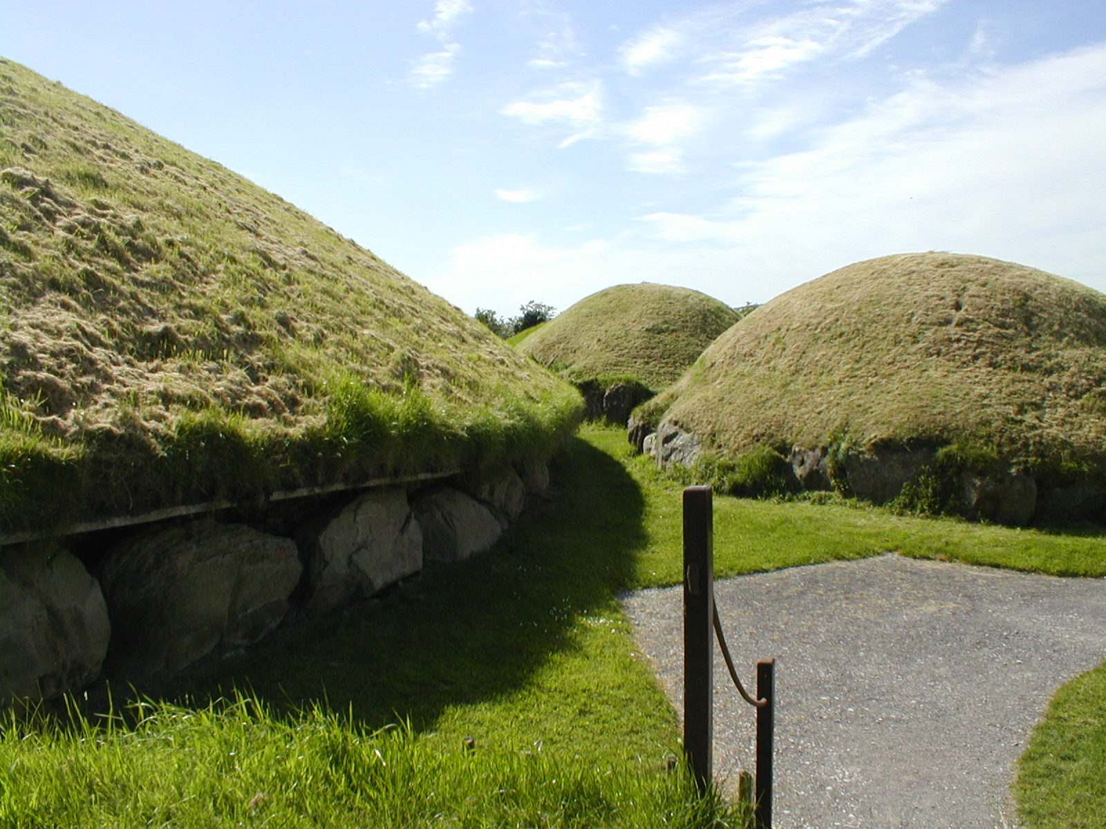 Hügel von KNOWTH !! I wasn't able to change the name in the headline!!!